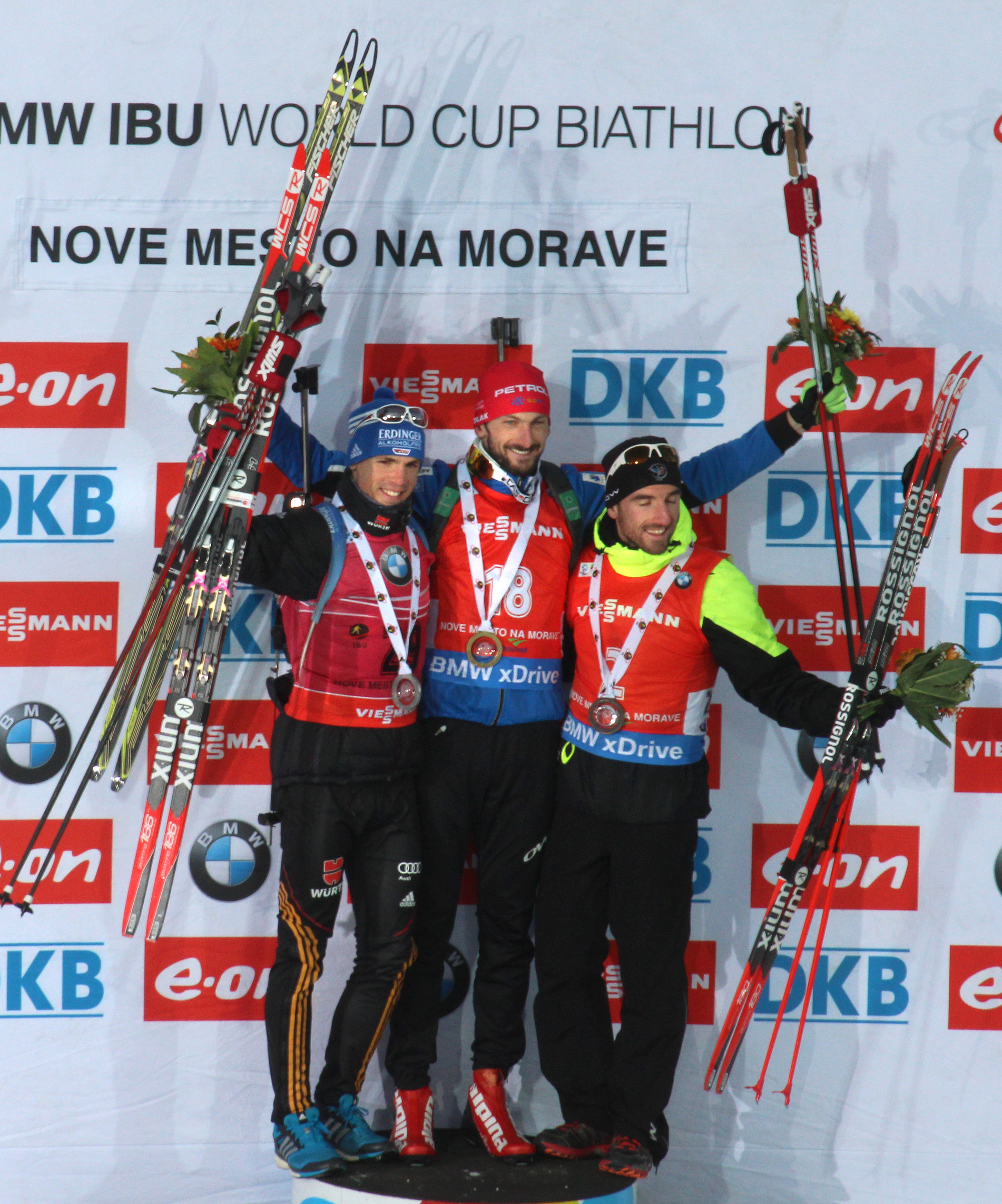 Biathlon World Cup 2015 in Nové Město, Czech Republic – podium after sprint men Zleva / From left to the right: Simon Schempp, Jakov Fak and Jean-Guillaume Béatrix.